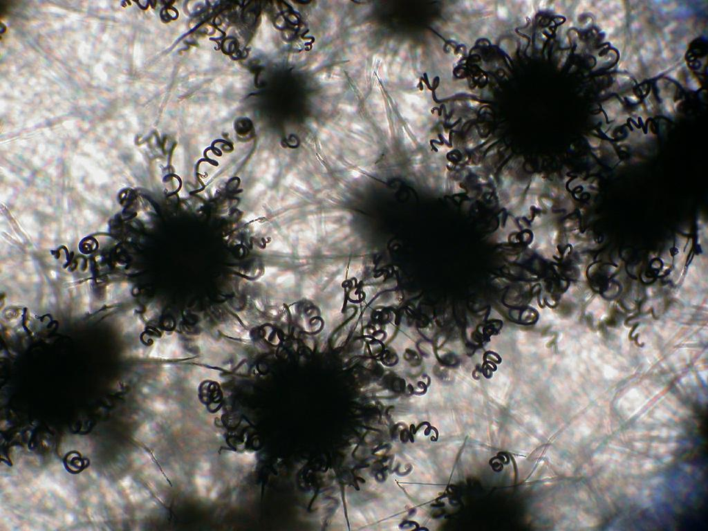 Chaetomium sp.(Chaetomiaceae,Soldariales,Pyrenomycetes,Ascomycota) Japanese name;Ketamakabi Date;2005,03;Susami town, Wakayama prefecture, Japan Author;Keisotyo